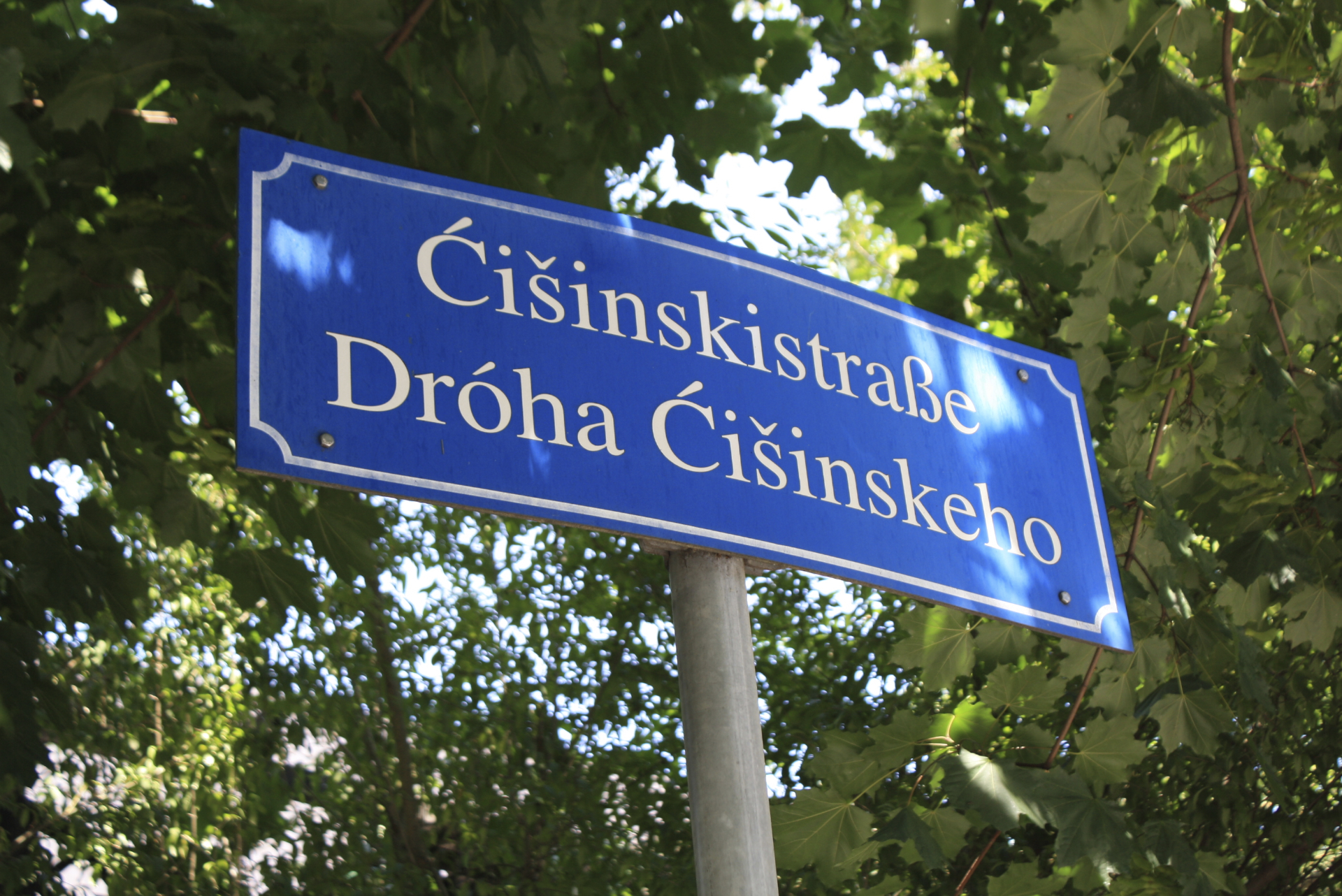 Ćišinski Street in Pančicy-Kukow (Panschwitz-Kuckau)